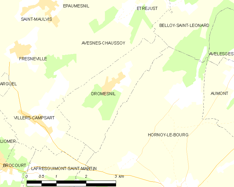 Map of French municipality Dromesnil